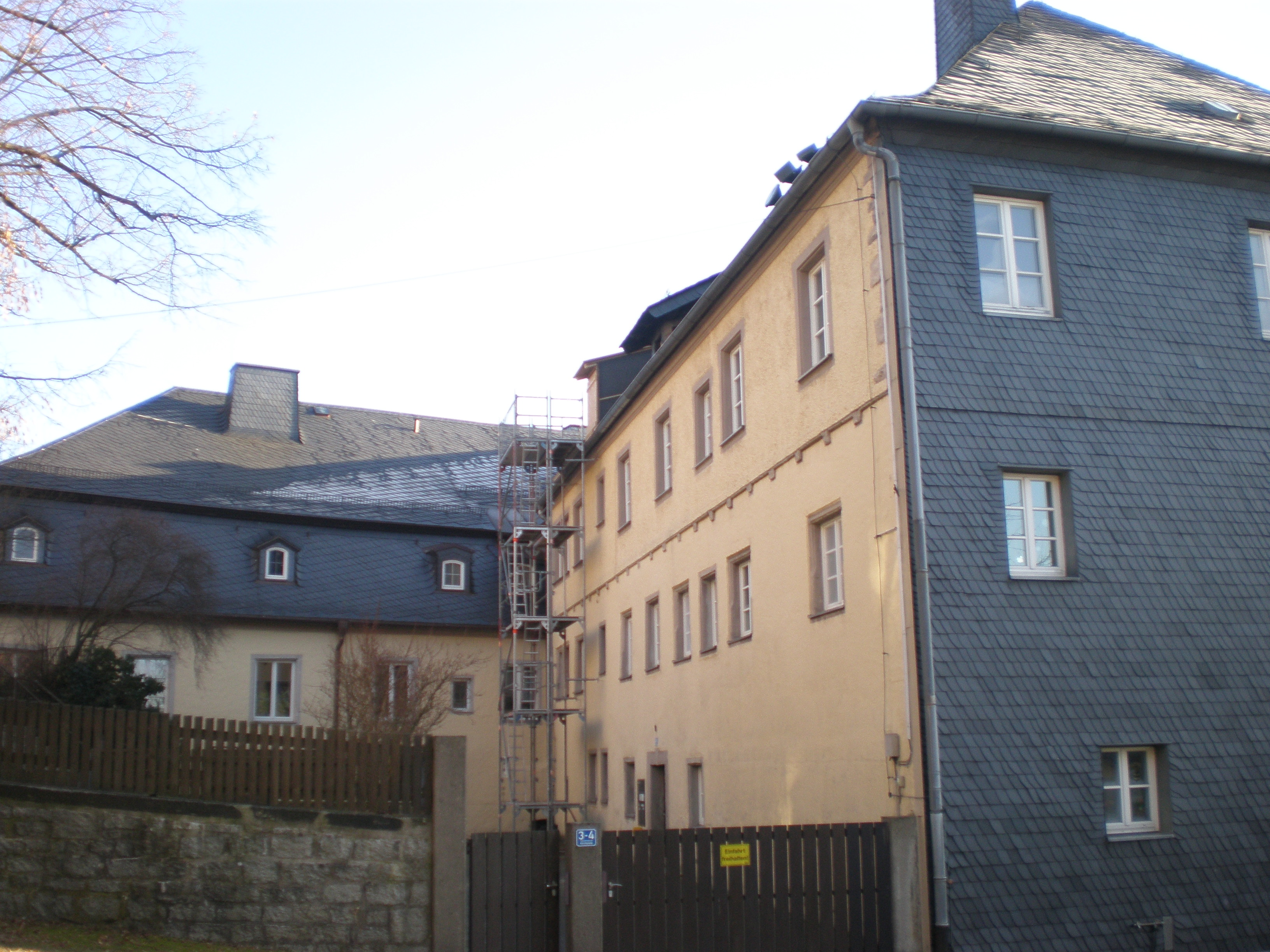 The vicarage in Münchberg.